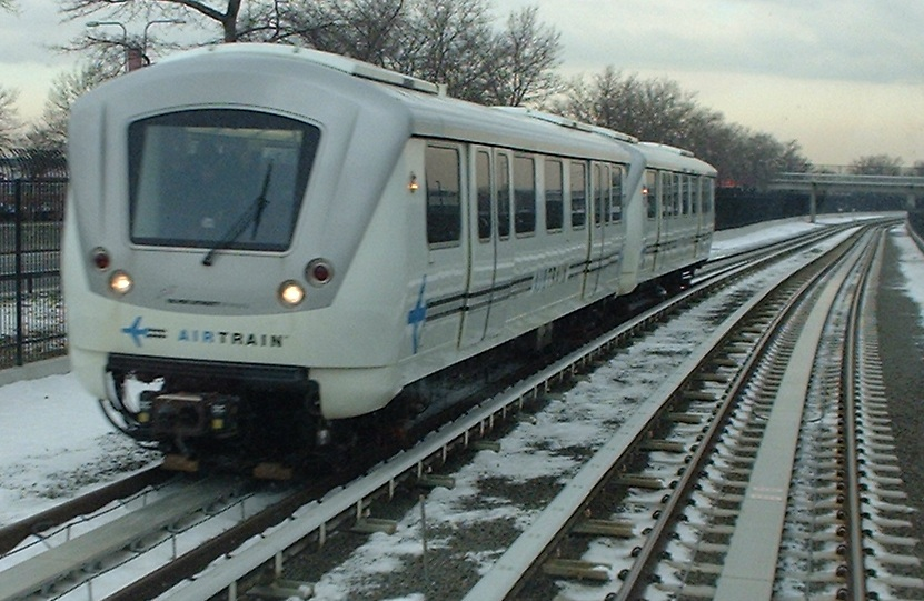 AirTrain at JFK airport (taken from )